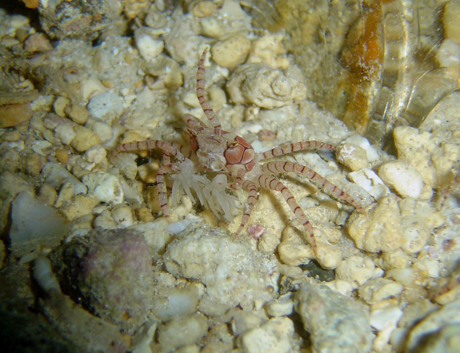 Pompon crab (Lybia edmondsoni) Image ID: reef0992, NOAA's Coral Kingdom Collection Location: Guam, Mariana Islands